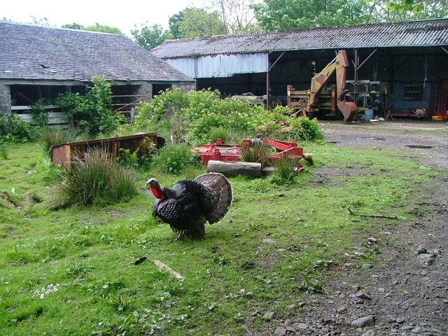 Farmyard, Meall Min near to Cùl a' Gheata, and Ulva House. Isle of Ulva, Inner Hebrides.